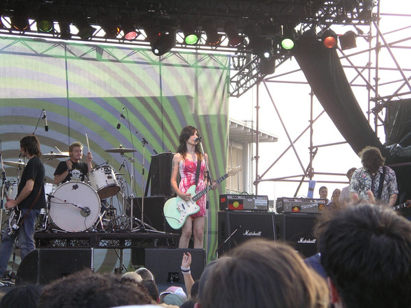 Magic Dirt at the 2004 Big Day Out. Photo by User:Robert Merkel.